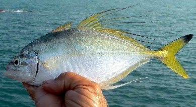 Caught in Exmouth, WA